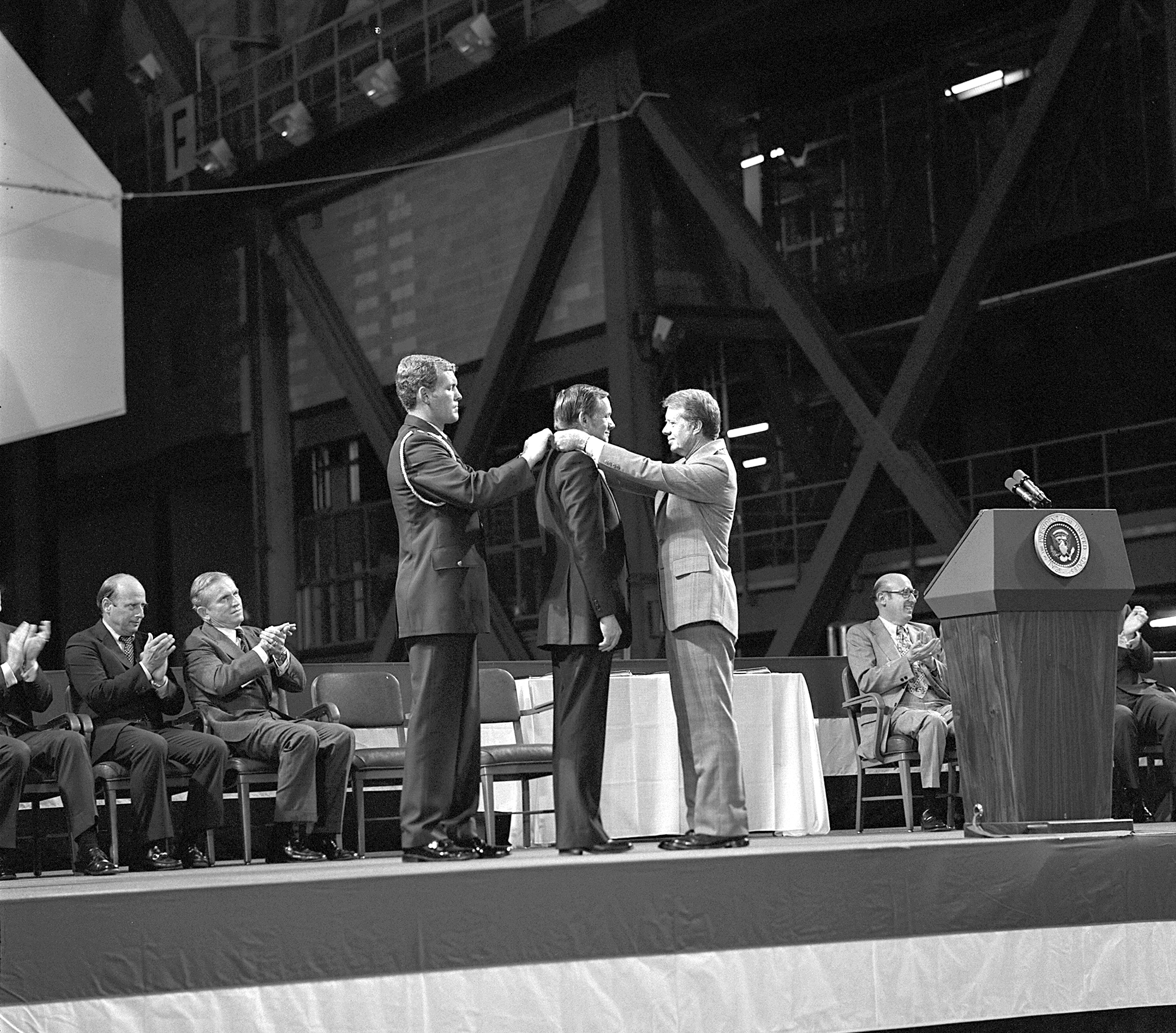 Astronaut Neil A. Armstrong receives the first Congressional Space Medal of Honor from United States President Jimmy Carter, assisted by Captain Robert Peterson. Astronauts Pete Conrad (left) and Frank Borman (second left) look on and applaud. Armstrong, one of six astronauts to be presented the medal during ceremonies held in the Vehicle Assembly Building (VAB), was awarded for his performance during the Gemini 8 mission and the Apollo 11 mission when he became the first human to set foot upon the Moon.